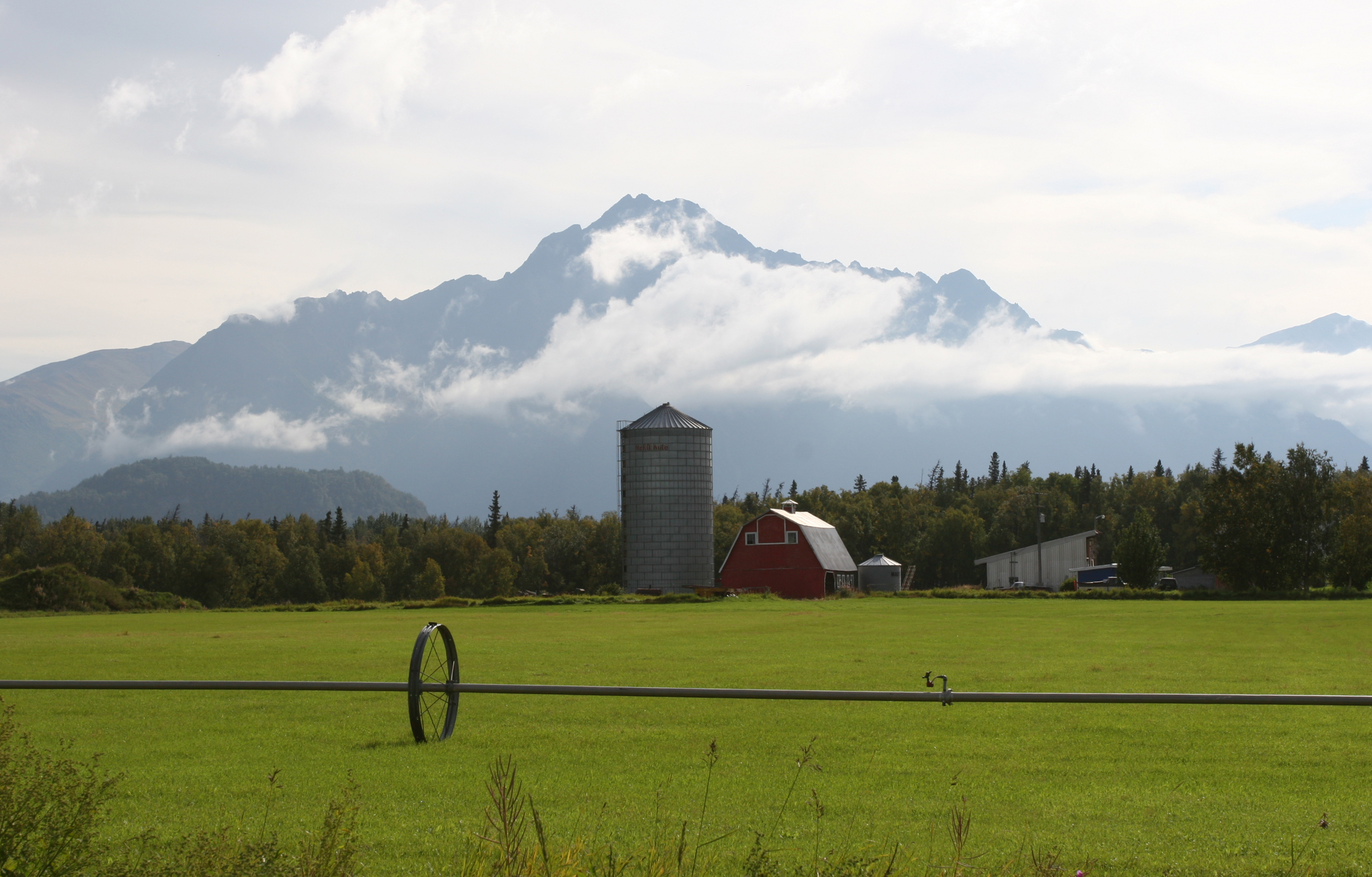 Description from NIOSH: "Farm, Matanuska Valley, AK Agricultural farm in Alaska in the Matanuska Valley near the town of Palmer. The prominent mountain in the background is Pioneer Peak.. Not many people think of farming when they hear about Alaska – however, there are about 900 farms located throughout Alaska with 318 different soil types. Summer days of nearly constant daylight allow some crops to grow to enormous size including 19 pound carrots and cabbage plants over 100 pounds. Hay is the most common crop grown on approximately 21,000 Alaska acres. Alaska harvests almost 18 million pounds of potatoes each year. Livestock farms in Alaska commonly raise cattle, pigs, sheep, reindeer, bison, yak, and elk."